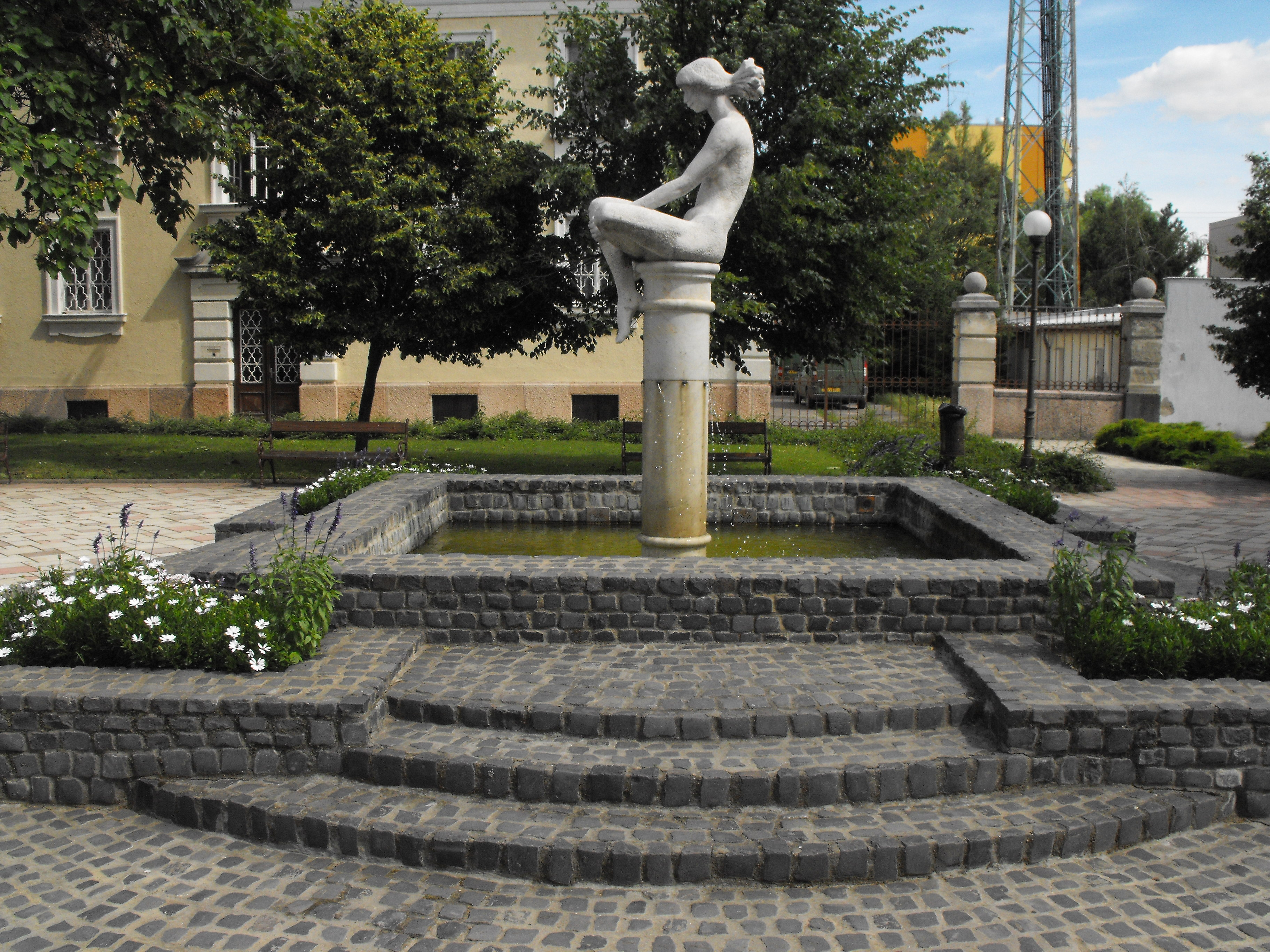 Side view of the Muses' Fountain in Makó, Hungary.